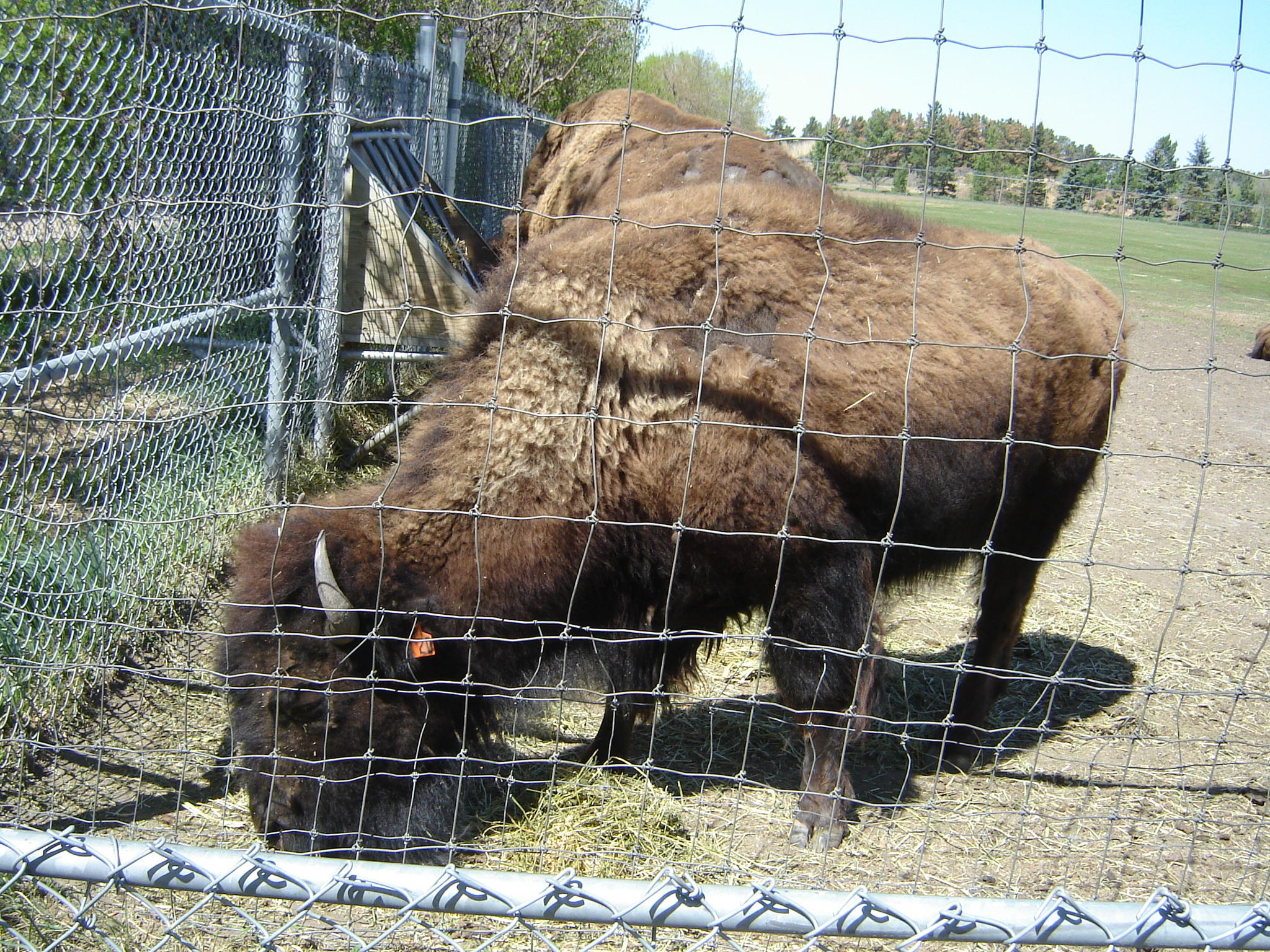 Plains bison {Bison bison Forestry Farm Park and Zoo Saskatoon Saskatchewan Canada